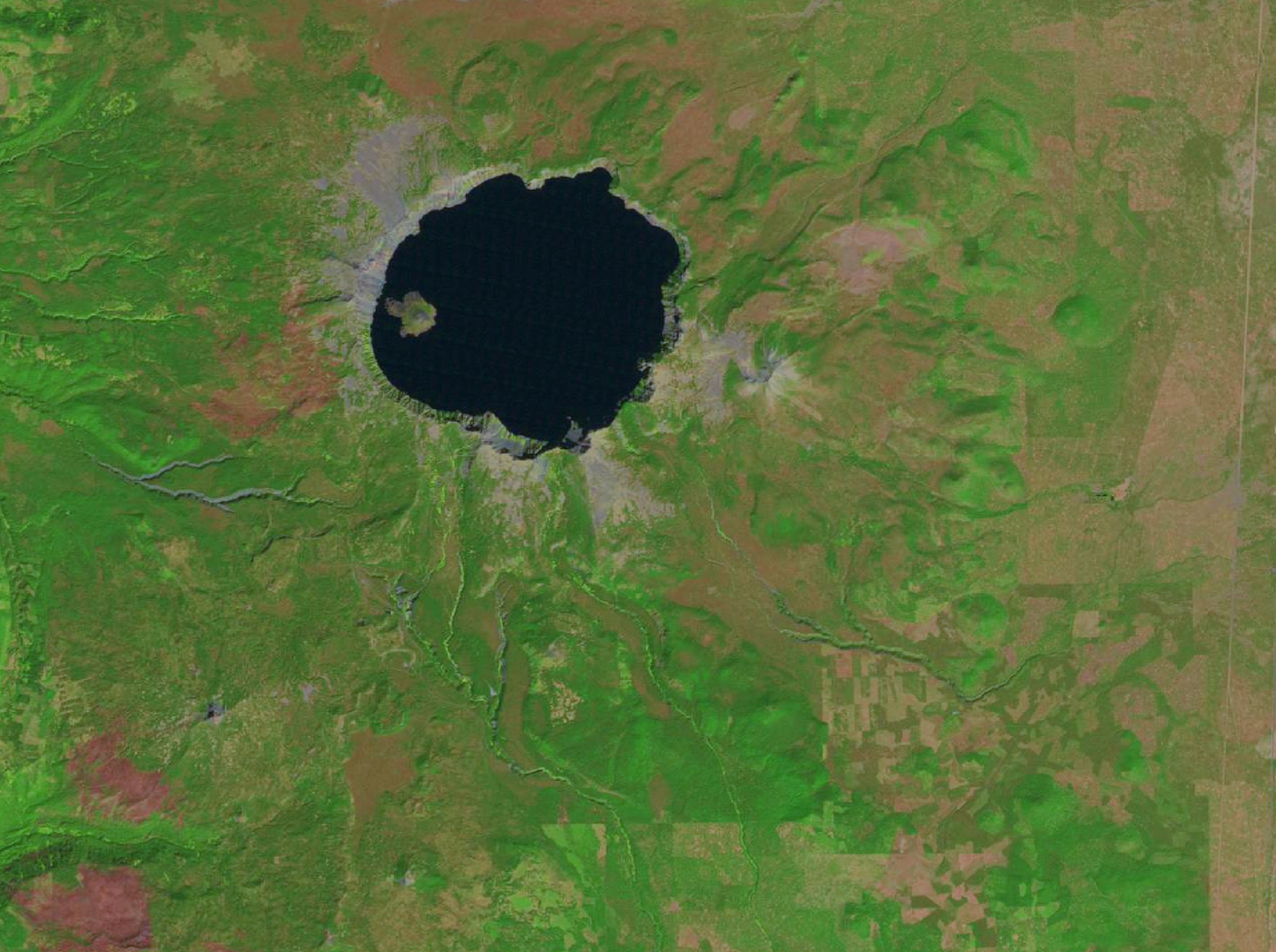 Satellite picture of Mount Mazama, a volcano in the Cascade Range, state of Oregon, United States.